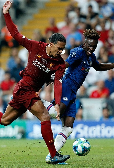 Liverpool vs. Chelsea, 2019 UEFA Super Cup